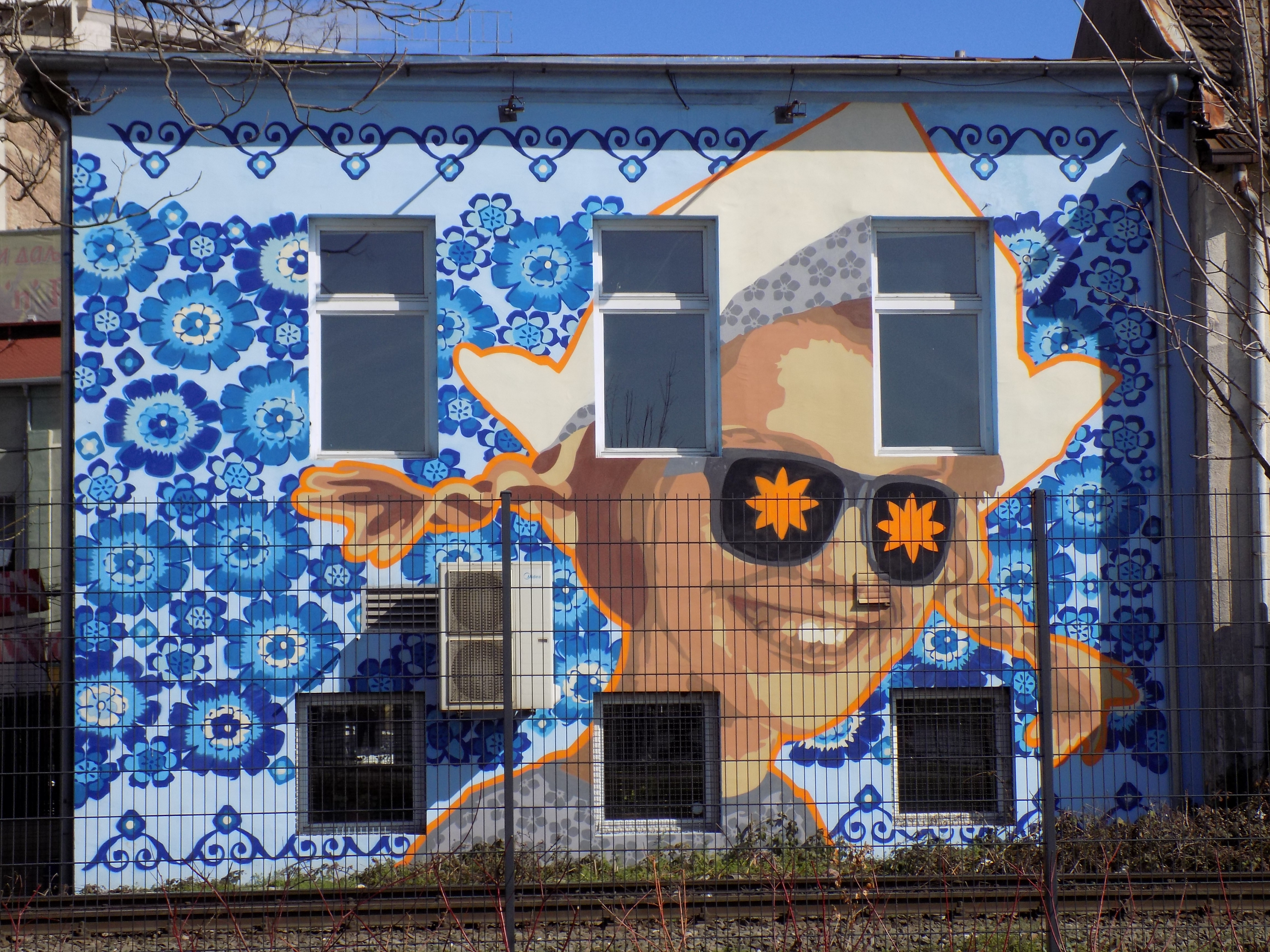 Smiling Dutch girl - mural on the wall of KC Grad in Savamala, Belgrade. Author: The Queen Villa (TKV), 2016